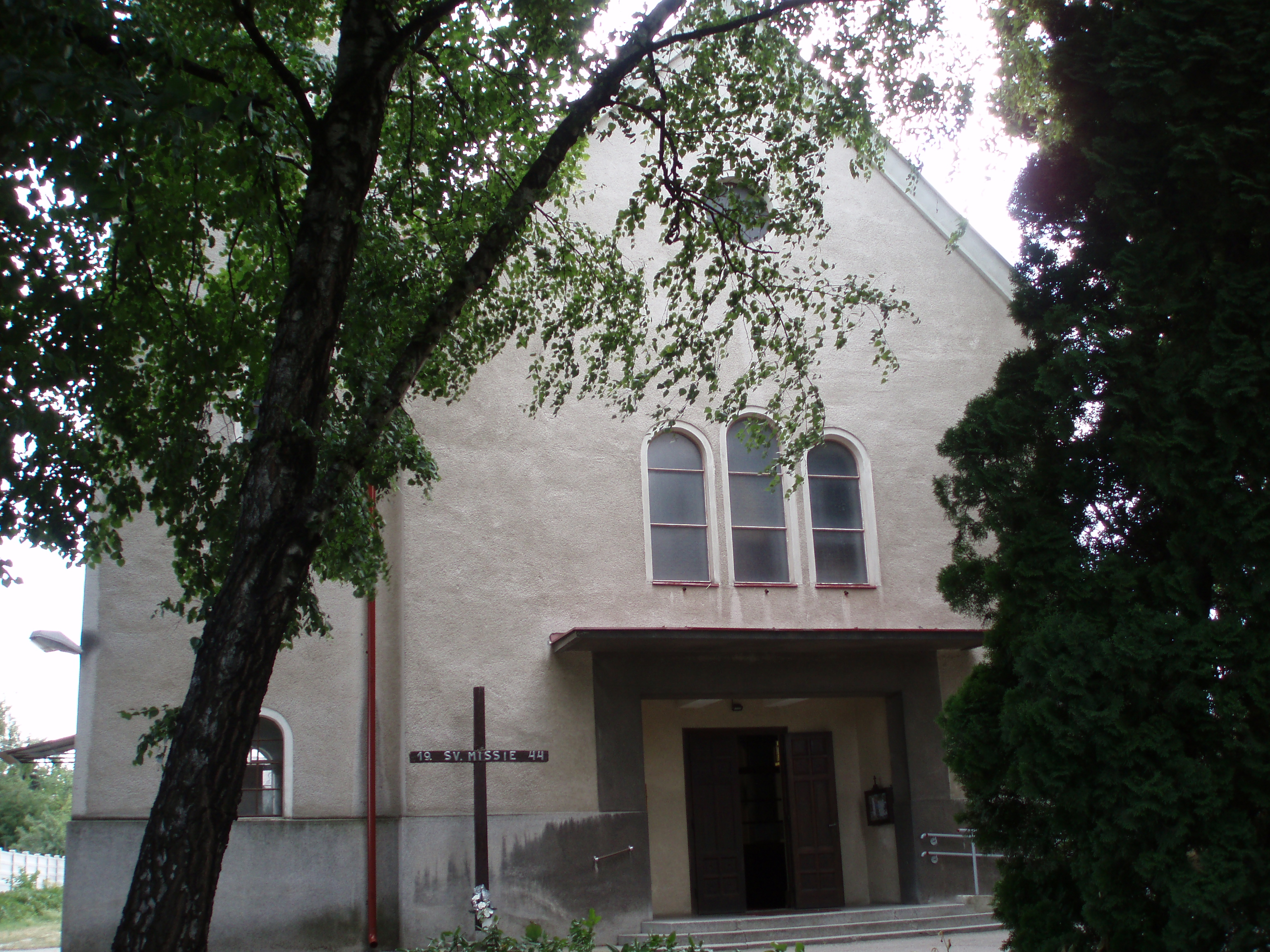 Church in Lužianky